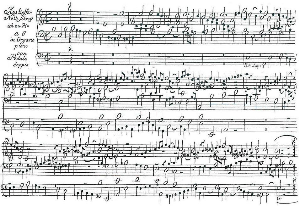 First page of original print of BWV 686 Aus tiefer Noth Shrei' ich zu dir from Clavier-Übung III